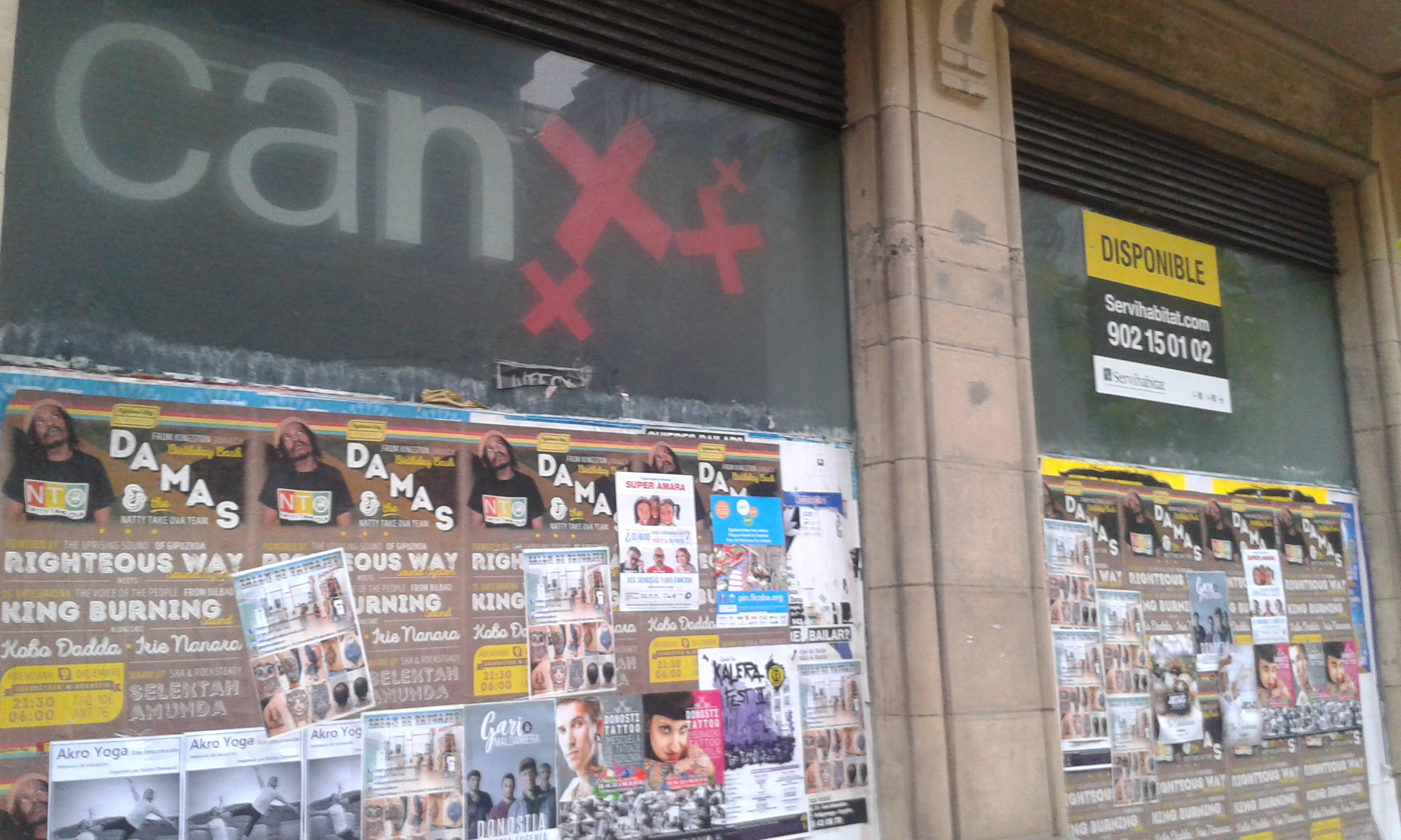 Shut down CAN branch, in Donostia-San Sebastián